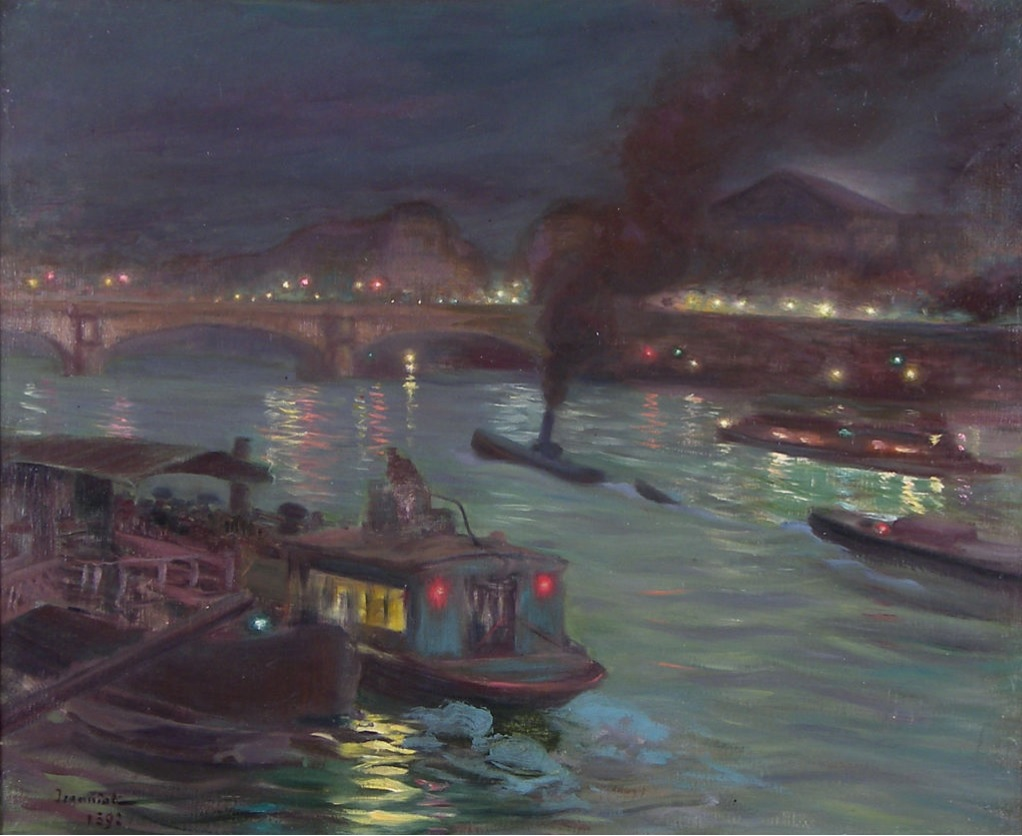 Night view of the Seine river